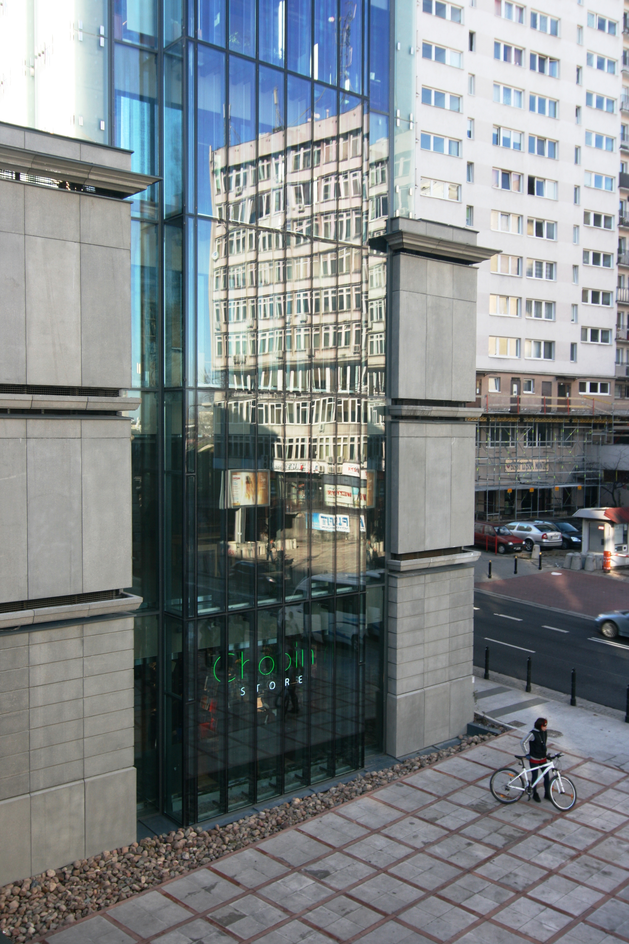 Chopin Center in Warsaw - entrance